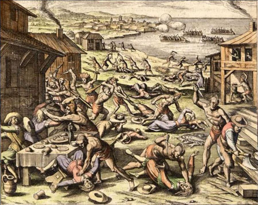 A colorized version of 1622 massacre jamestown de Bry.jpg on Wikipedia. It is from a 1628 woodcut by Matthaeus Merian published along with Theodore de Bry's earlier engravings in 1628 book on the New World. The engraving shows the March 22, 1622 massacre when Powhatan Indians attacked Jamestown and outlying Virginia settlements. Merian relied on de Bry's earlier depictions of the Indians, but the image is largely considered conjecture.